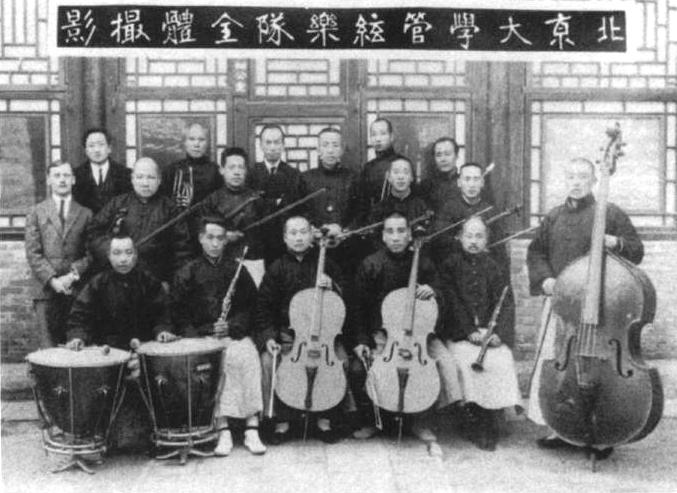 Peking University Orchestra